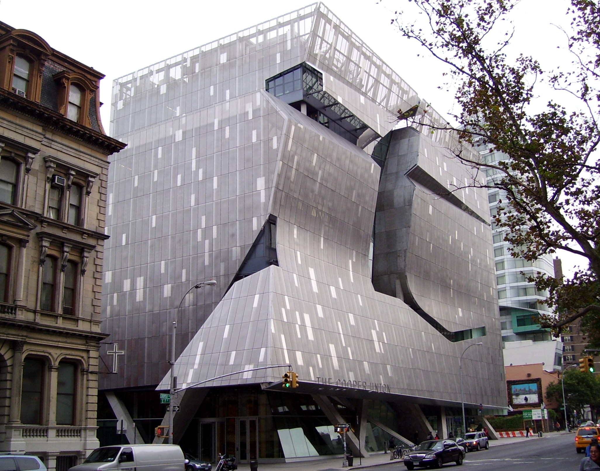 Cooper Union New Academic Building at 41 Cooper Square near Astor Place in the East Village of Manhattan, New York City. Designed by Thom Mayne of Morphosis Architecture, with Gruzen Samton as associate architect, the building opened in the Summer of 2009. This view is from the north.